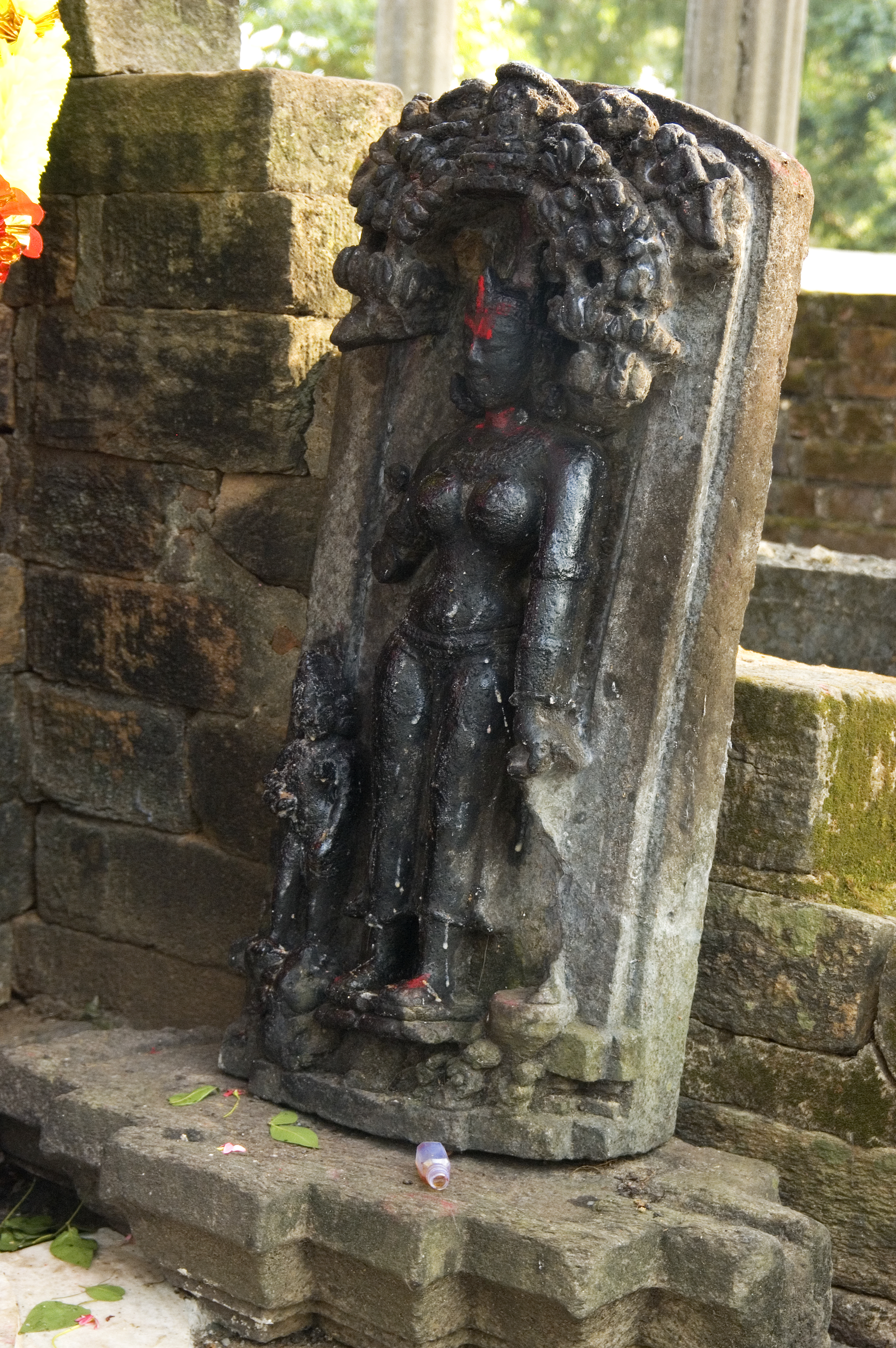 Statue of Ambika, Pakbirra Jain Shrine, Purulia District, West Bengal, India